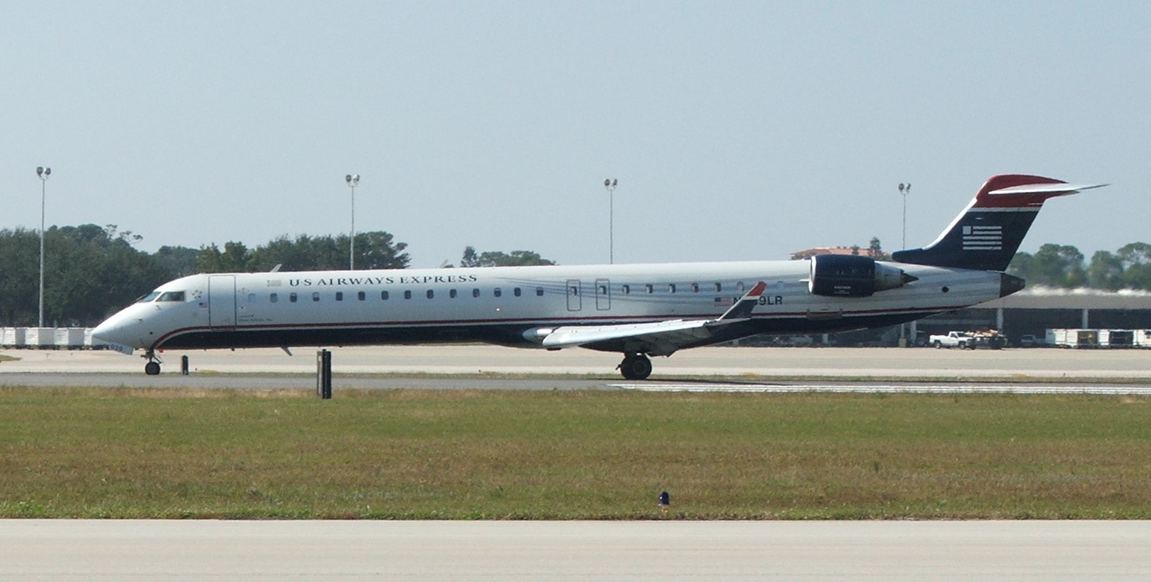 US Airways Express (Mesa Airlines) CRJ-900 at Sarasota-Bradenton International Airport